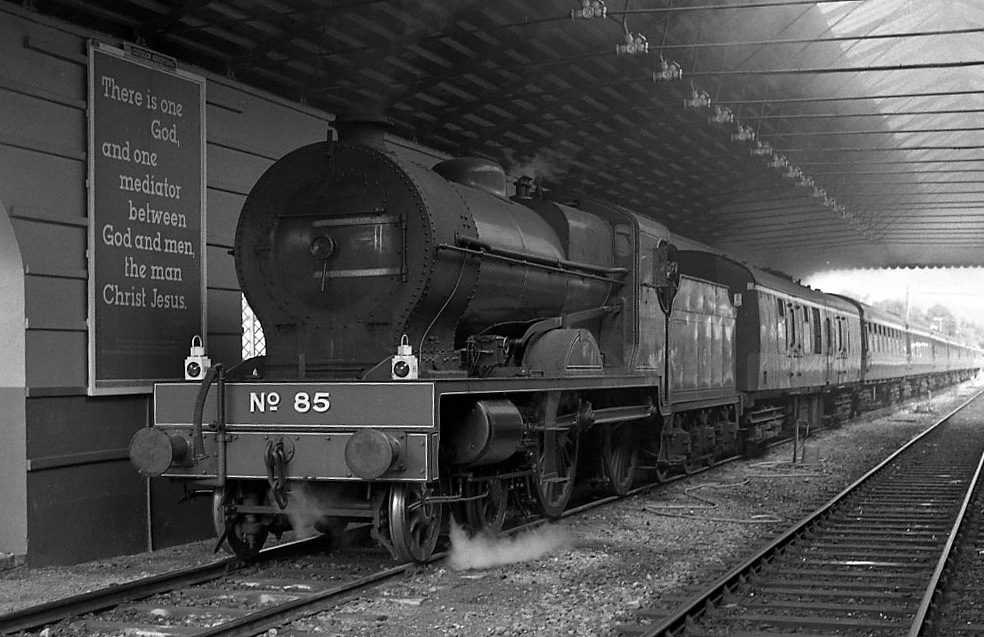 85 at Killarney